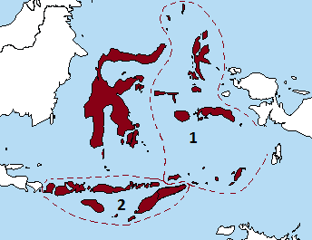 Wallacea map